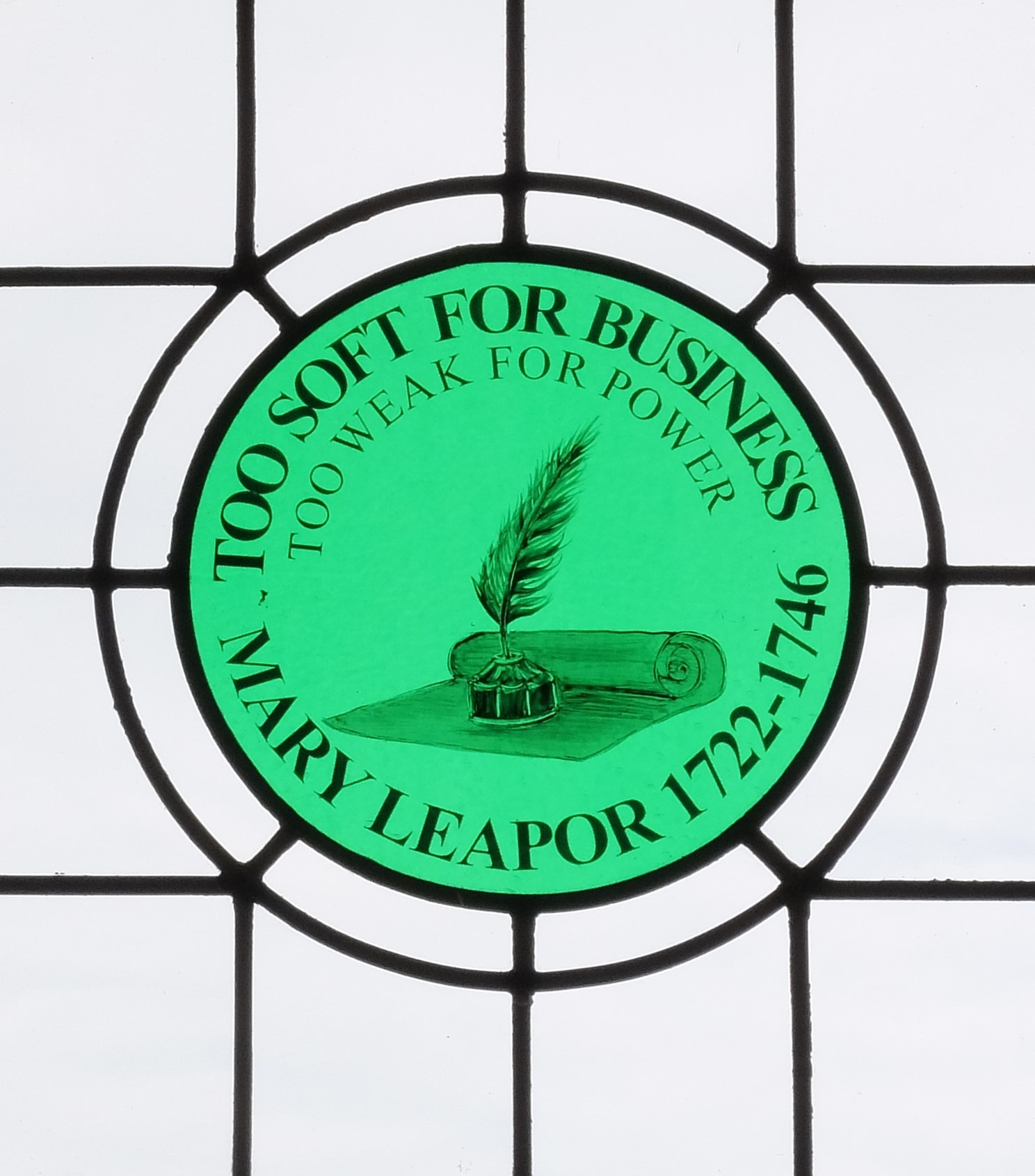 Mary Leapor Roundel